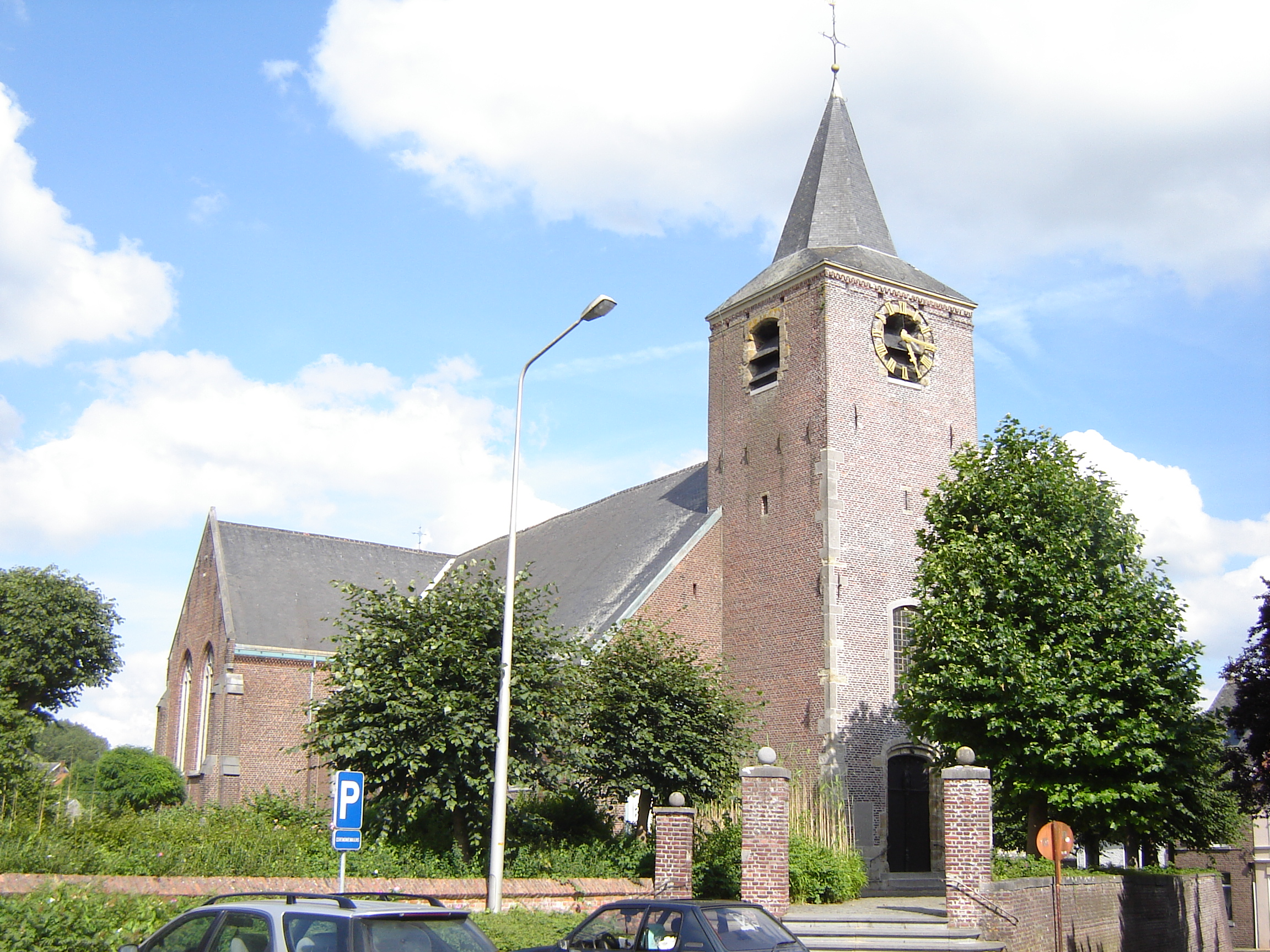 Church of Saint Aldegonde, Geraardsbergen, East Flanders, Belgium.